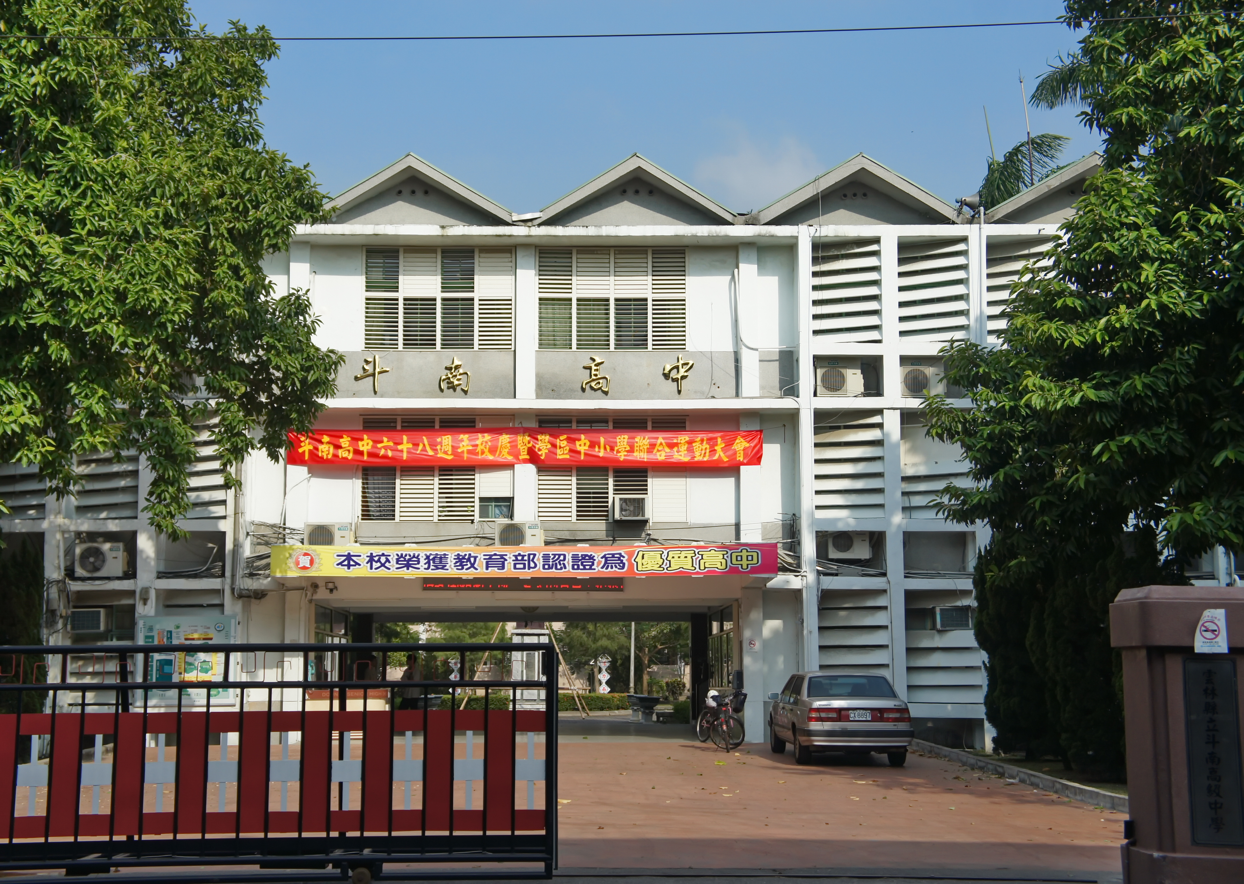 Yun-Lin County Tounan Senior High School.